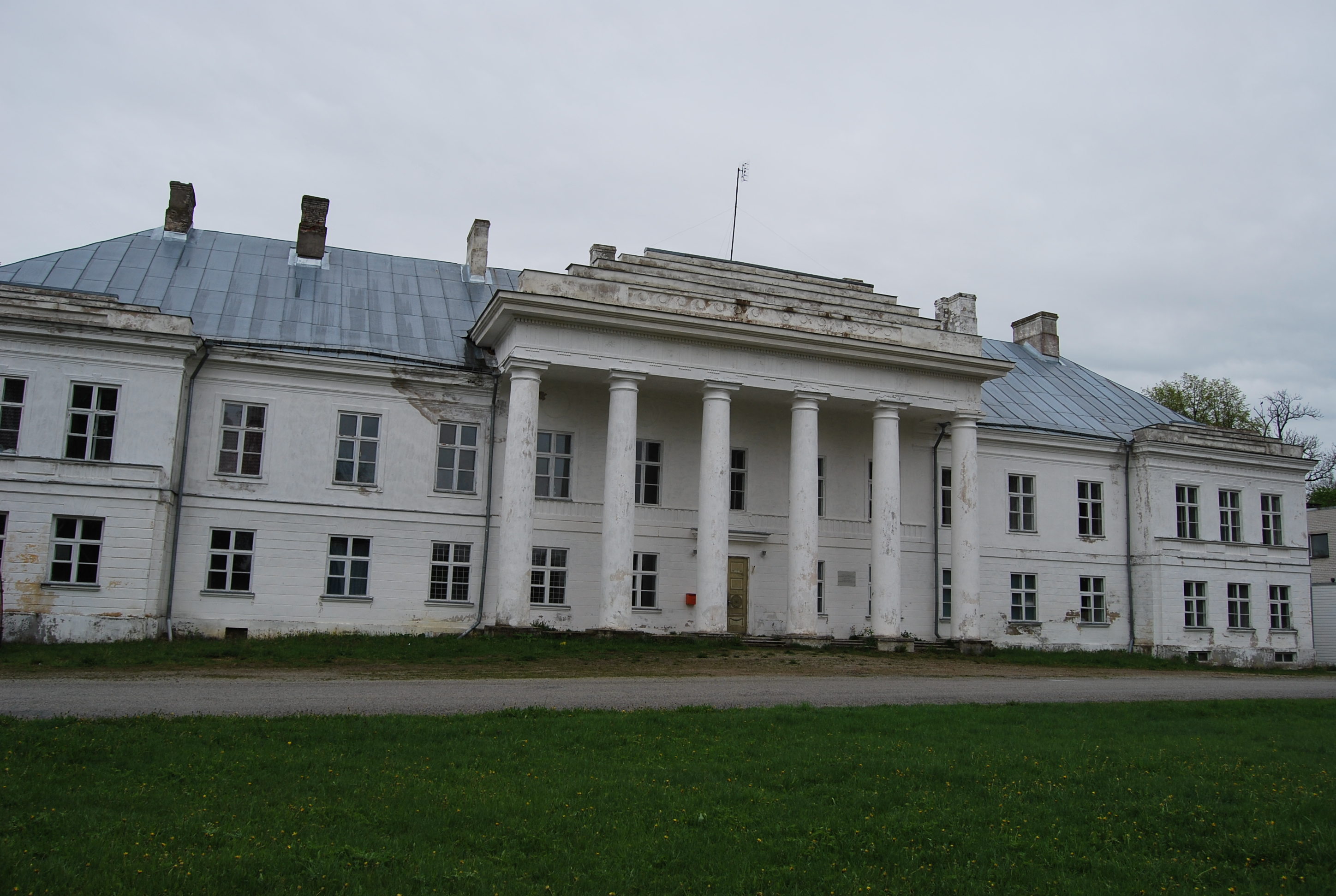 Aaspere manor, Estonia